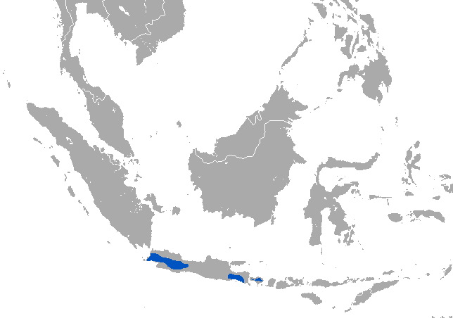 Javan Ferret-badger (Melogale orientalis) range